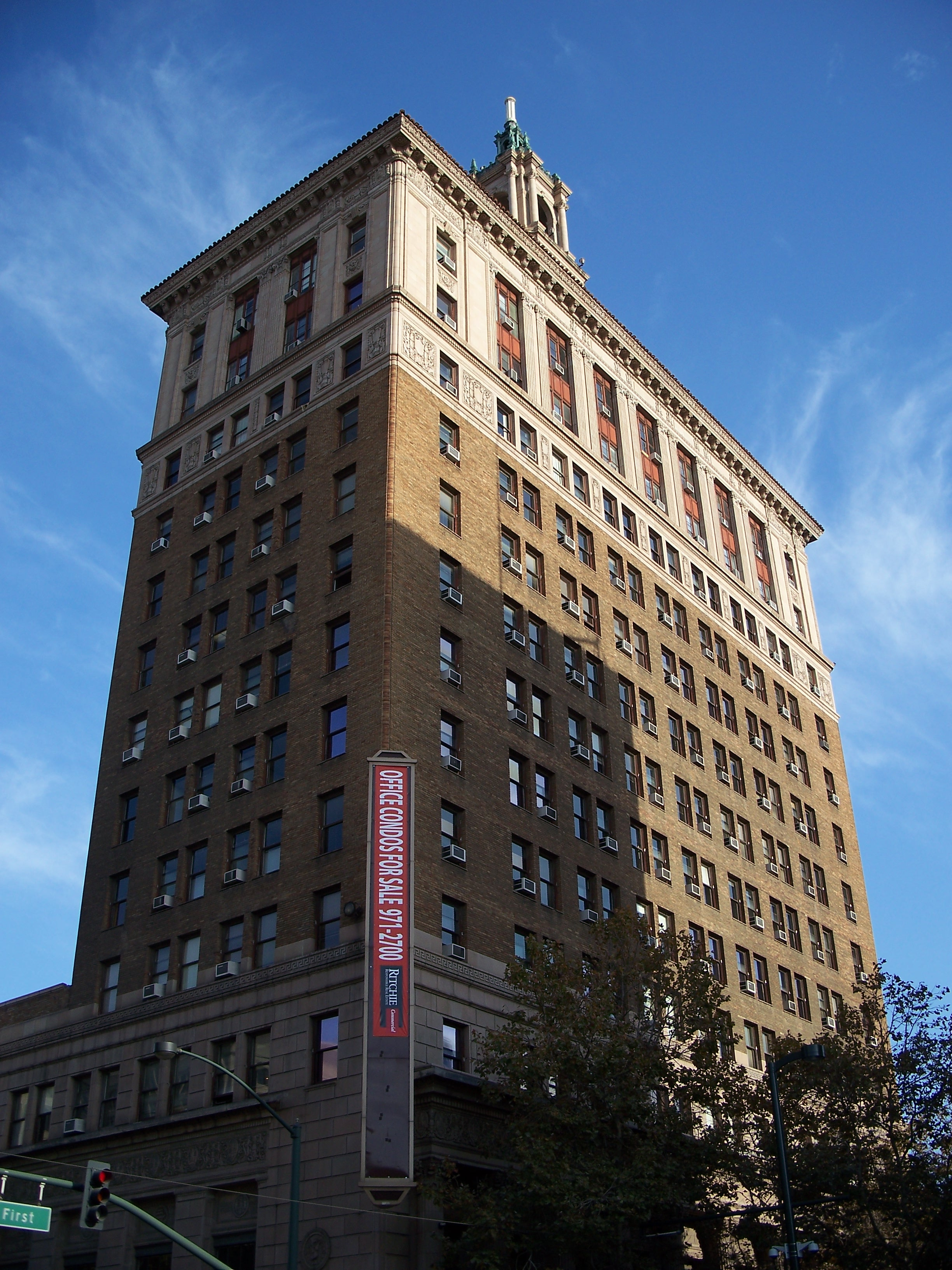 Bank of Italy. 8-14 South First Street. San Jose, California, USA